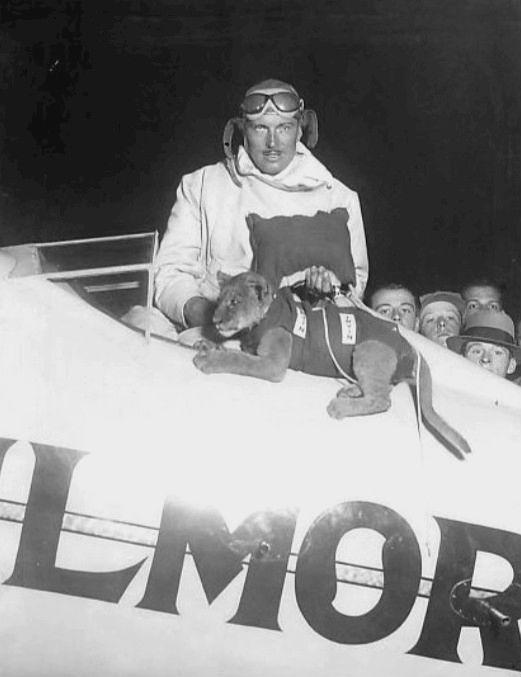 Photo of Colonel Roscoe Turner and his mascot, lion cub Gilmore. Gilmore flew with Turner until he was full-grown and thus too large.